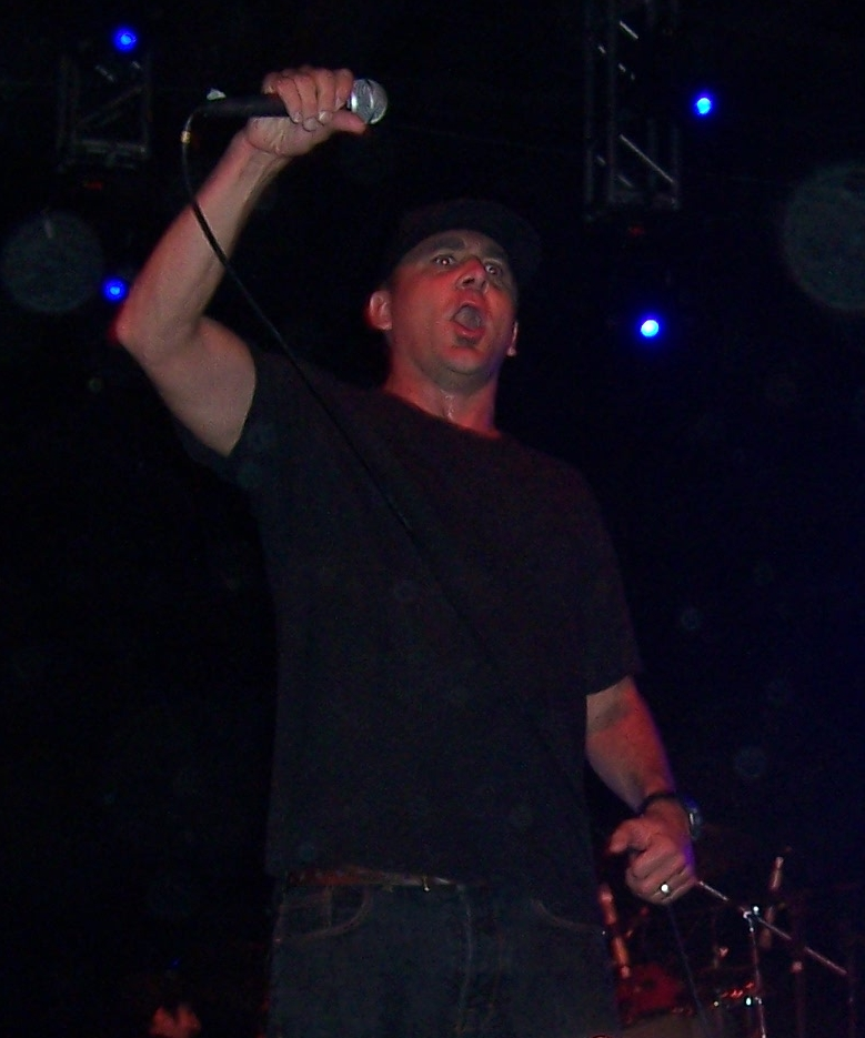 Jim Lindberg from Pennywise in PortoAlegre, photo from Flickr by amourino, resized by me